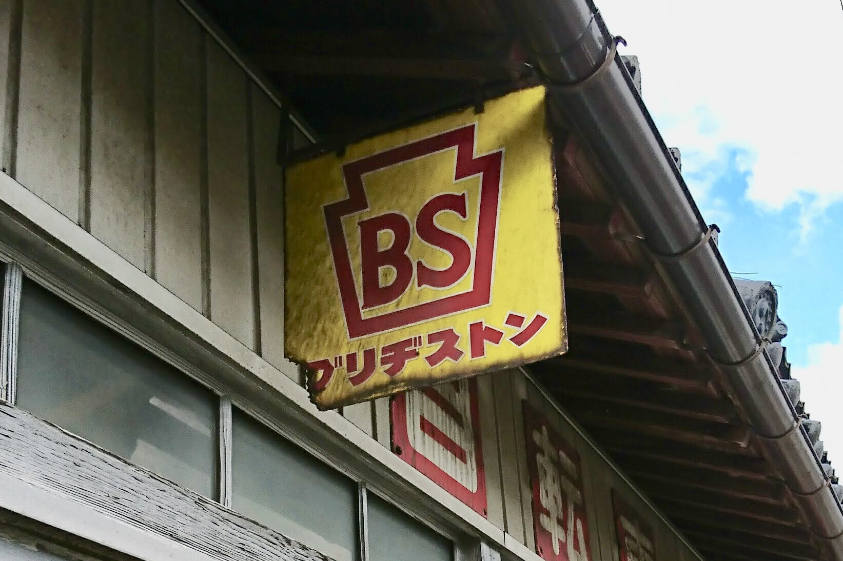 Old emblem of Bridgestone